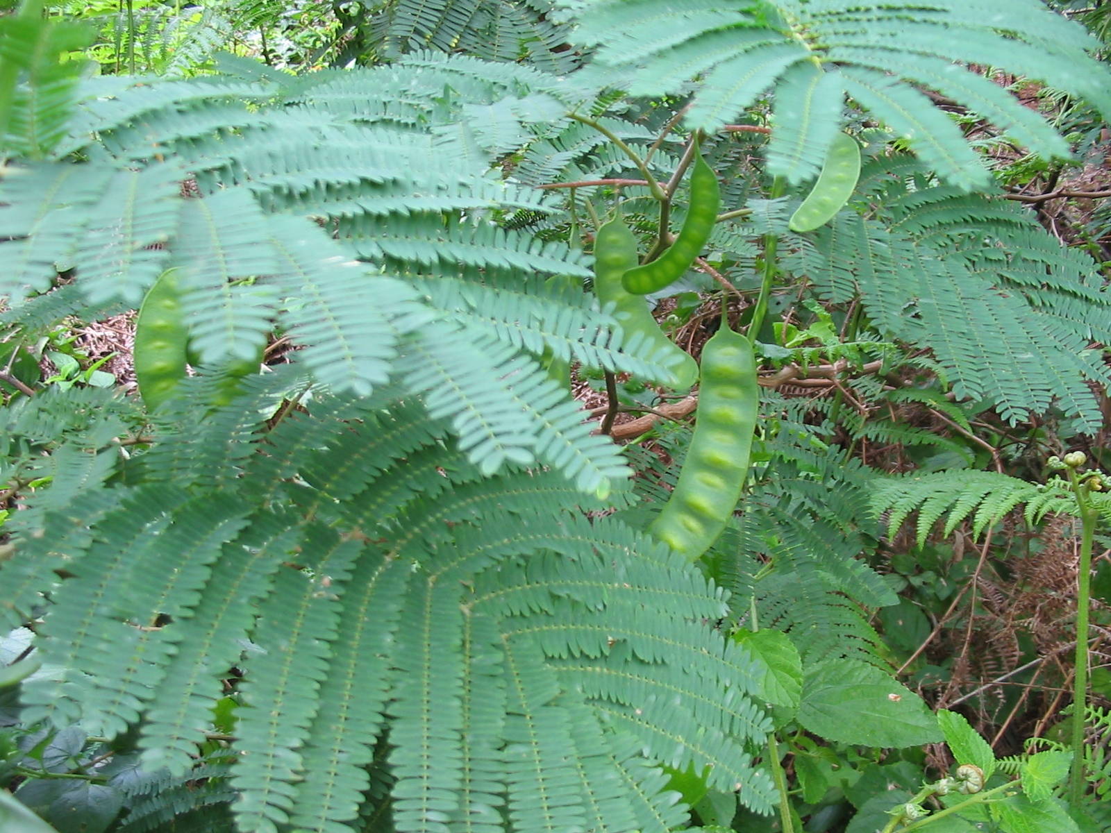 Schwarzholzakazie (Acacia melanoxylon'.......THIS IS NOT Acacia melanoxylon'........) -Seedling